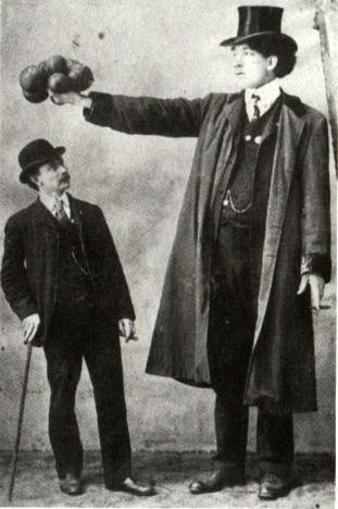 Edouard Beaupré, a circus and freak show giant, strongman, and a star in Barnum and Bailey's circus.